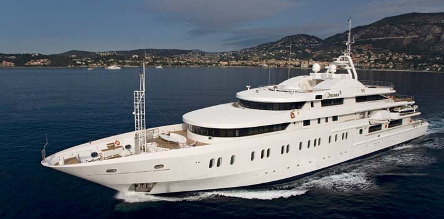 The MY Delma in 2010, at Monte Carlo, Monaco.